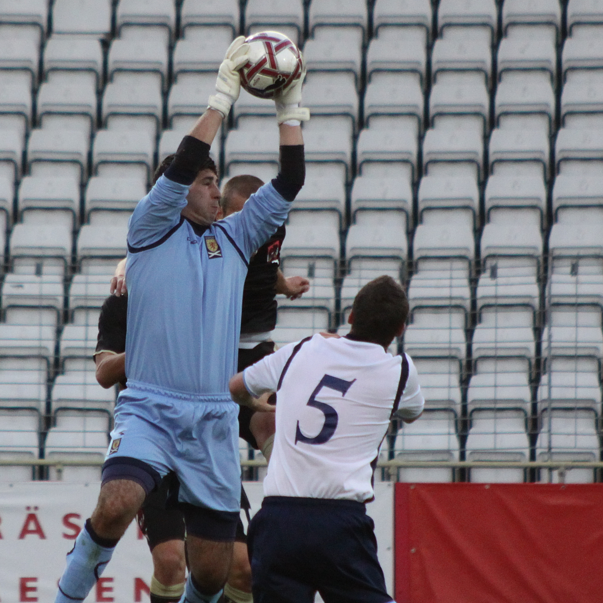 Alan Martin (Leeds United) - Schottische Fußballnationalmannschaft (U-21-Männer) Alan Martin (Leeds United) - Scotland national under-21 football team — (3)